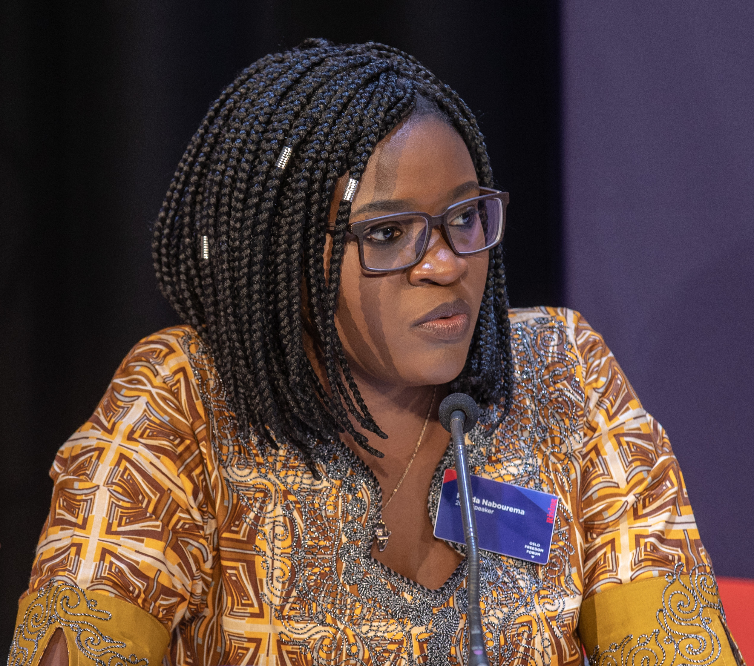 Farida Nabourema at the press conference of the 2018 Oslo Freedom Forum.